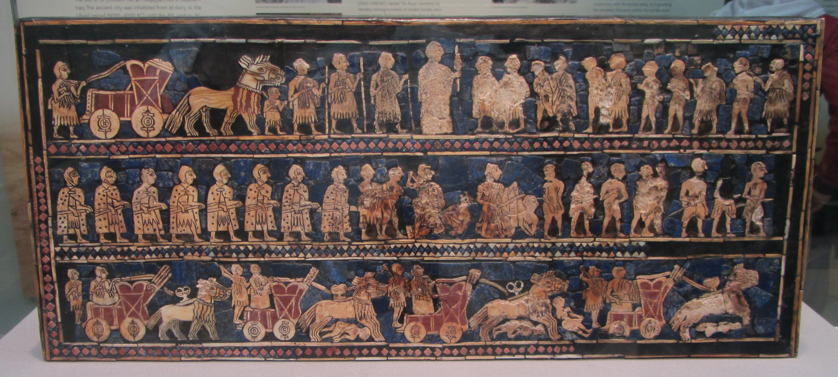 Object of unknown function that was found in one of the largest graves in the Royal Cemetery at Ur, southern Iraq, about 2600-2400 BC. British Museum (ME 121201). This picture shows the "war panel" ("peace panel" on opposite side).